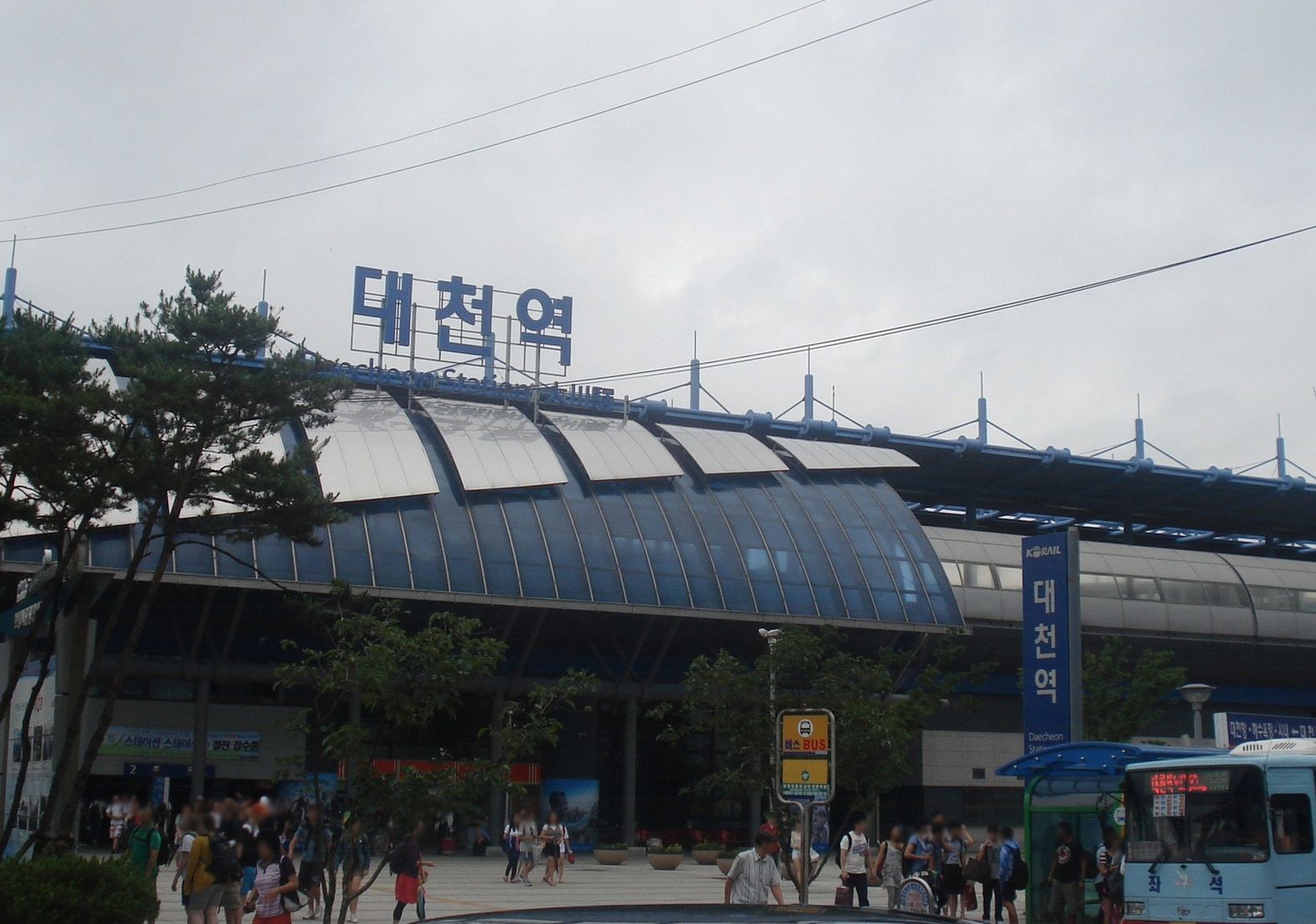 Daecheon Station